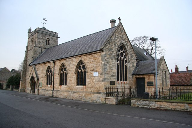 St.Thomas' church A curious building with an interesting history. The tower is clearly medieval and has a Norman tower arch with waterleaf capitals, but was in decay by 1619 when Fen Drainage Adventurer Thomas Garrett founded a chapel of ease to Washingborough. In 1865 Michael Drury adapted the fabric to become the village school, a function continued until the mid-1970s. It is now a place of worship and the Thomas Garrett Heritage Room